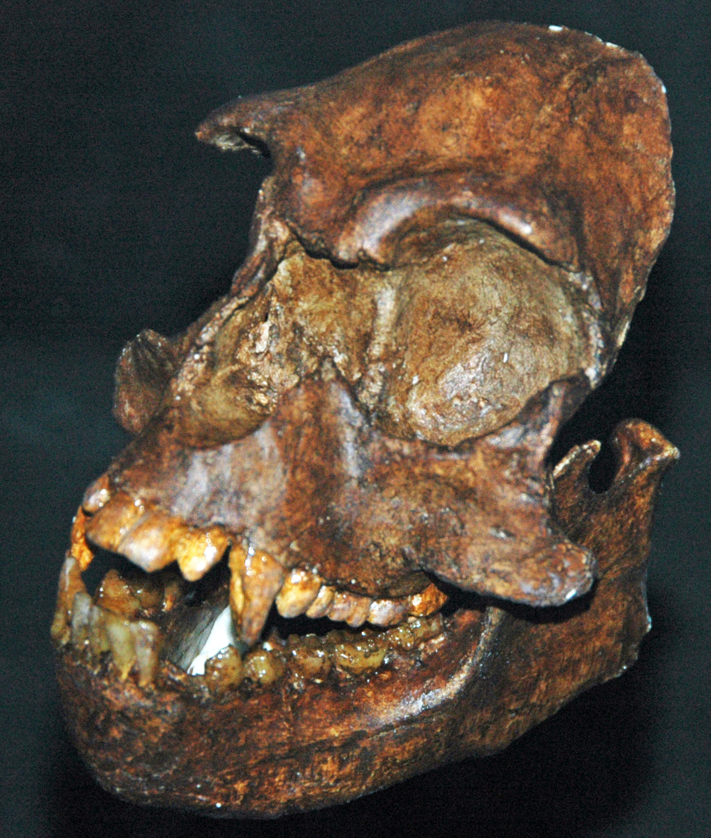 Epipliopithecus vindobonensis (Zapfe & Hürzeler, 1957) - fossil primate skull (cast) from the Miocene of Slovakia. (public display, Field Museum of Natural History, Chicago, Illinois, USA) This species is also known as Pliopithecus vindobonensis. Classification: Animalia, Chordata, Vertebrata, Mammalia, Primates, Pliopithecoidea, Pliopithecidae Age: Badenian Stage, Middle Miocene Locality: unrecorded/undisclosed site in Slovakia, but possibly from Zapfe's Fissures (